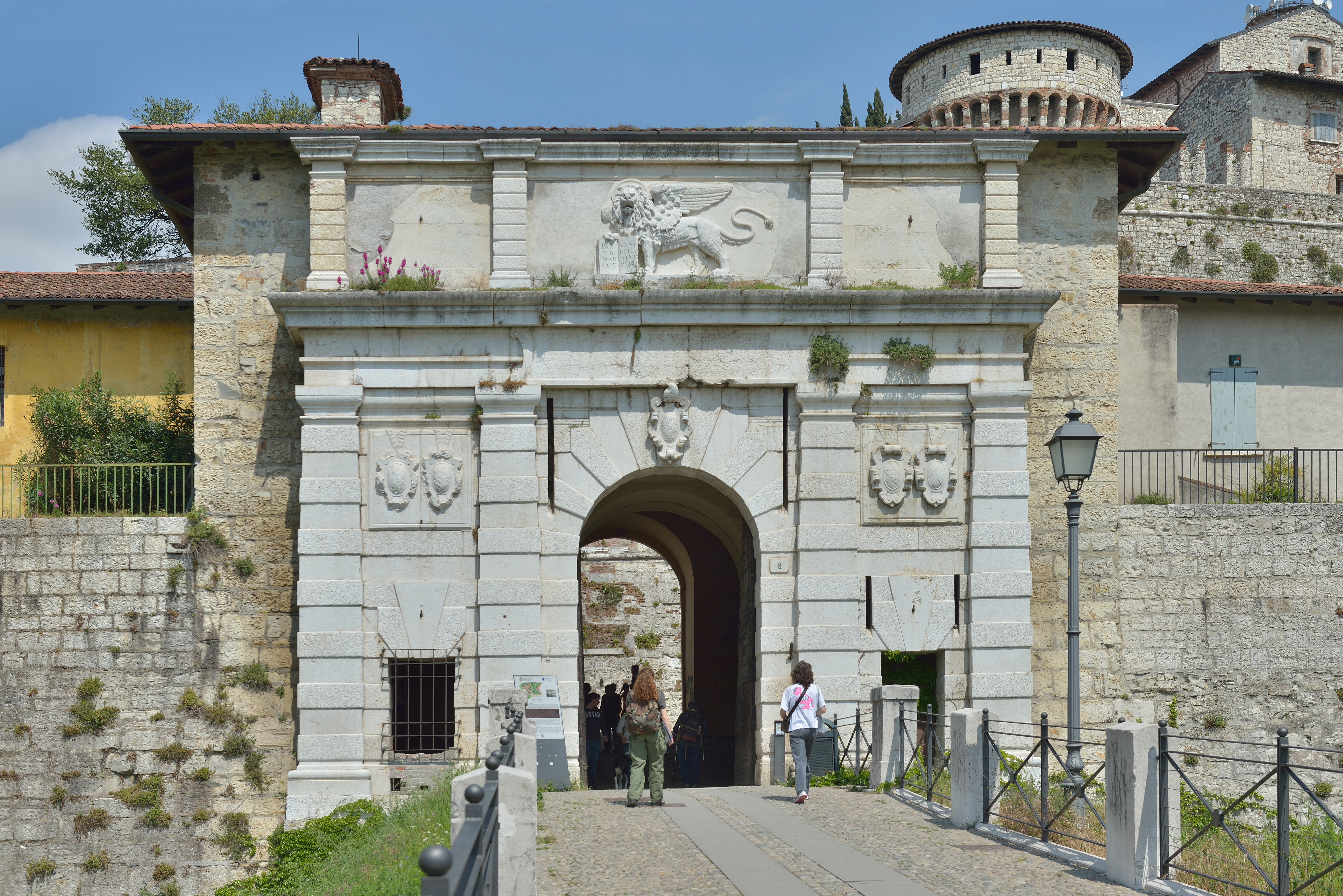 Entrance to the Castle of Brescia Italy